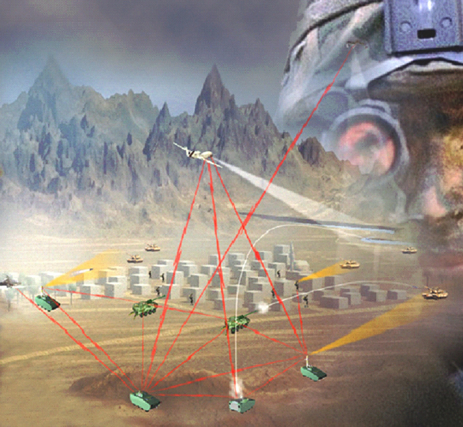 The Future Combat Systems network is depicted here graphically showing connectivity between different weapons platforms and the Soldiers.